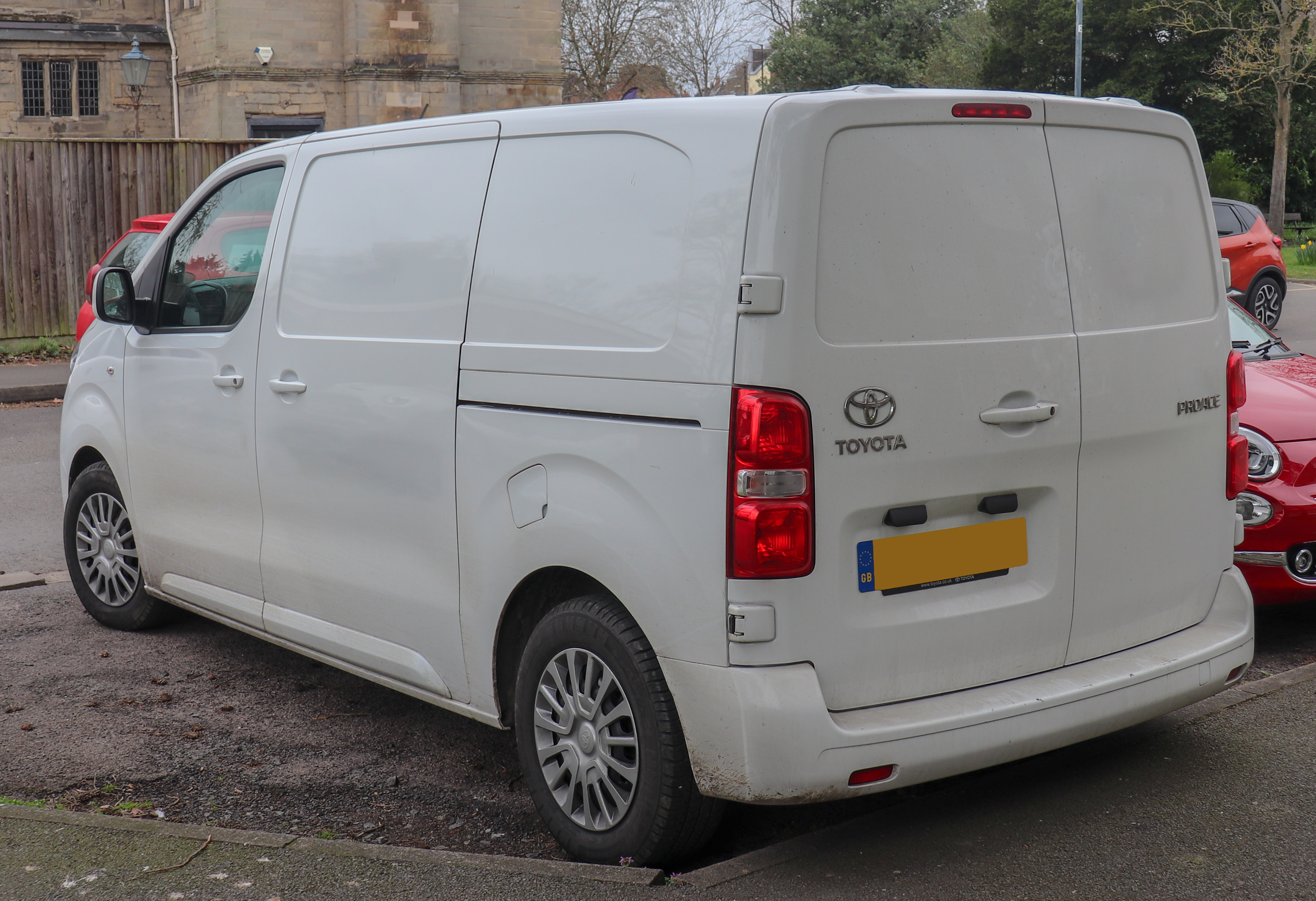 2018 Toyota Proace Comfort 1.6 Rear Taken in Warwick